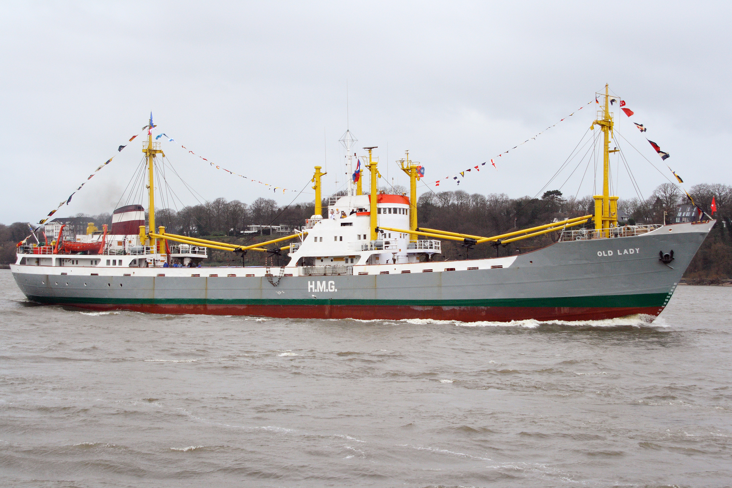 Old Lady, a general cargo ship, that was build in 1958, enters Hamburg Harbour, Germany. IMO number: 5046281